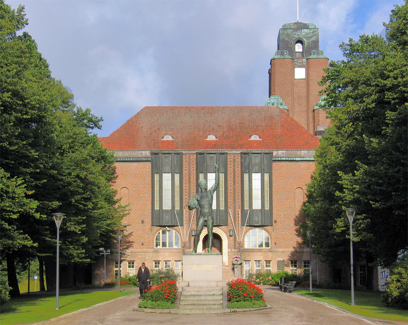 Lahti city hall